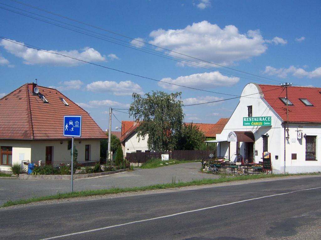 Doubravčice, village square - restaurant